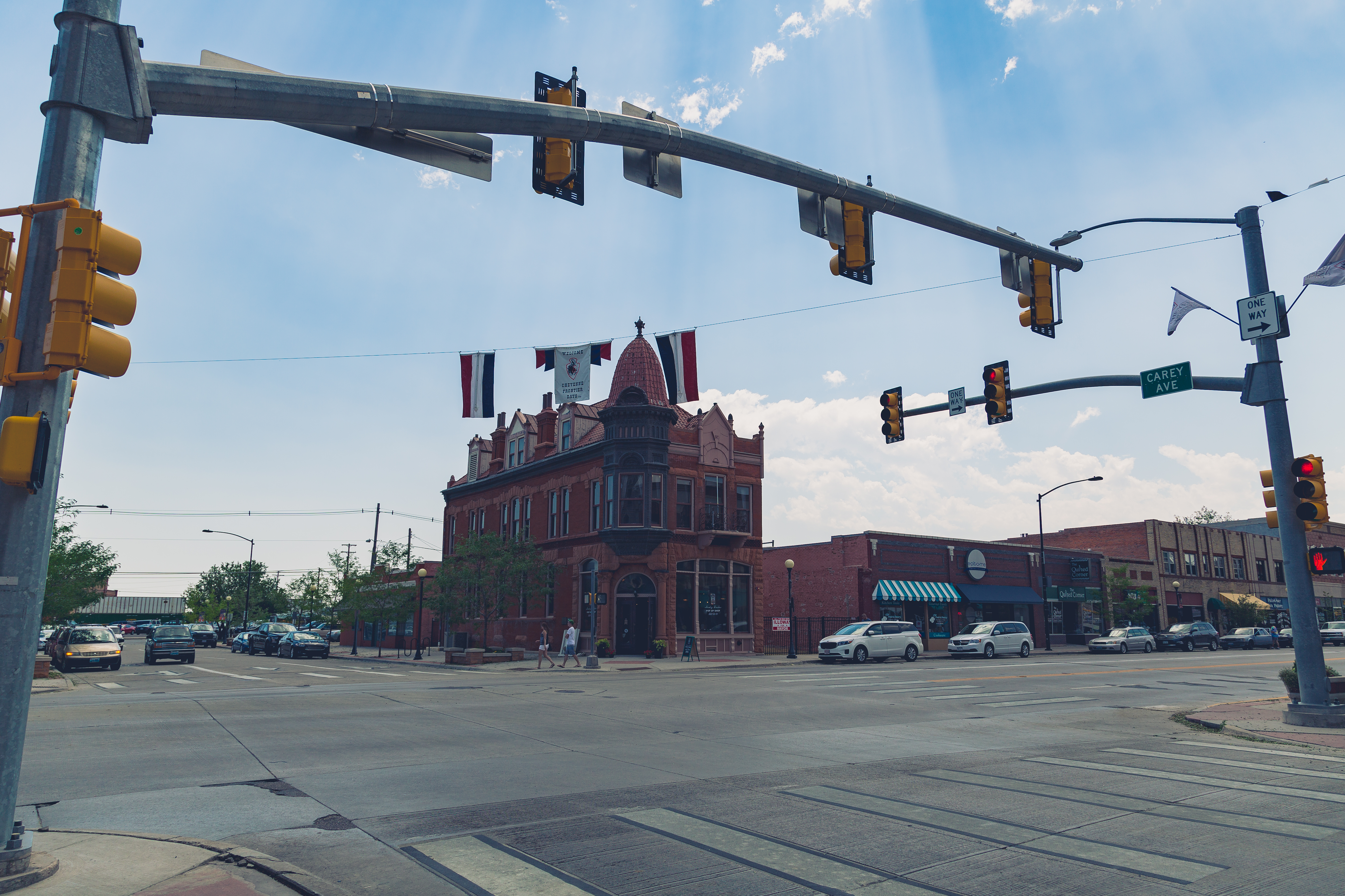 Downtown Cheyenne, Wyoming. The building in the center is the Tivoli Building.